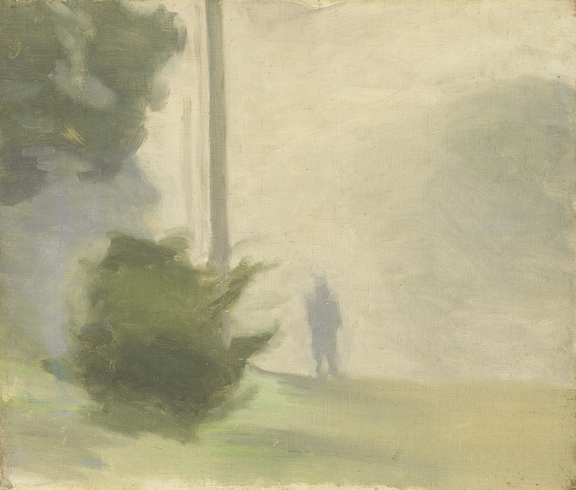 Silent Approach, oil on board, 48.0 h x 58.0 w cm.